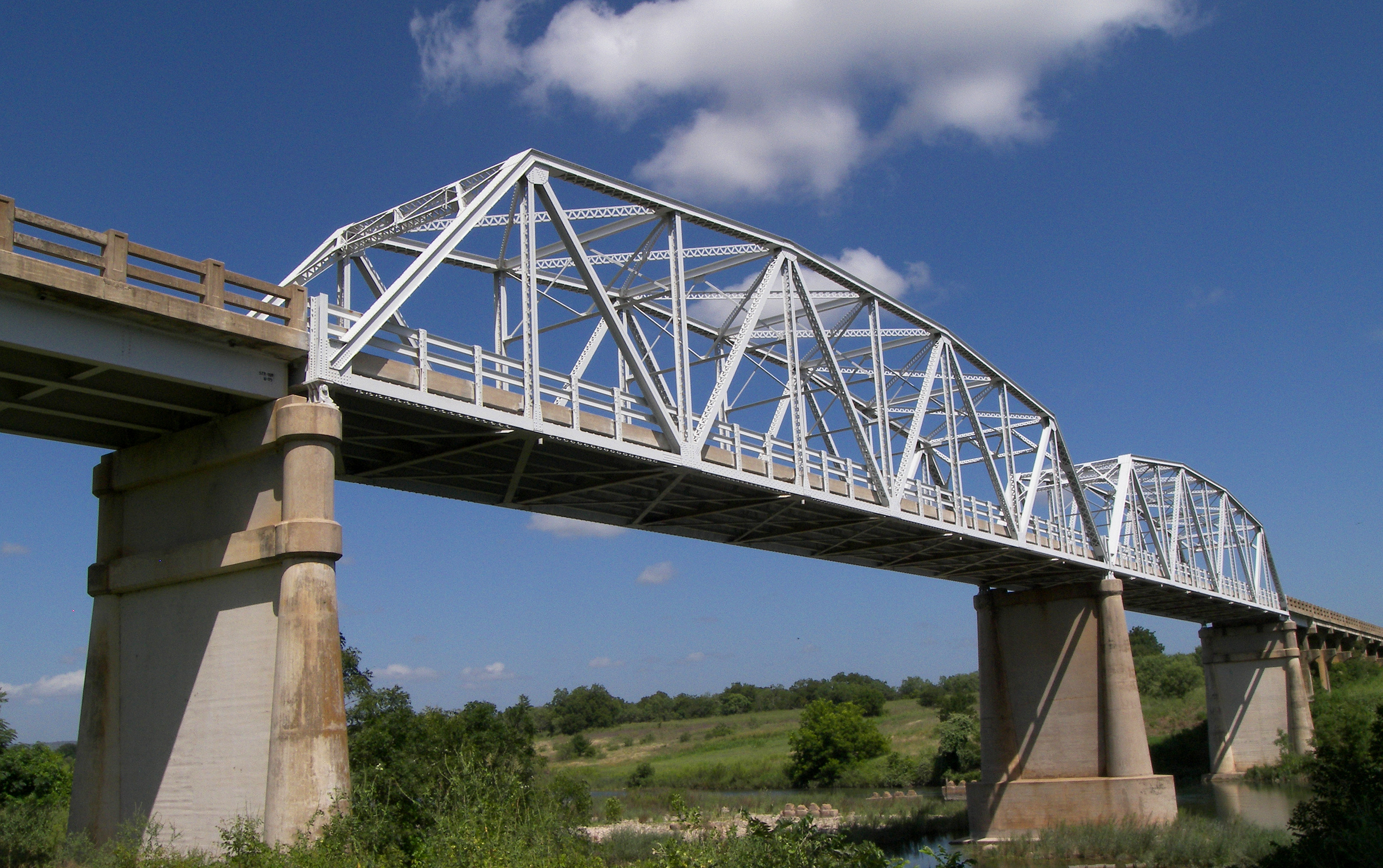 The State Highway 9 Bridge at the Llano River in Mason County, Texas, United States. It was listed on the National Register of Historic Places on October 10, 1996.